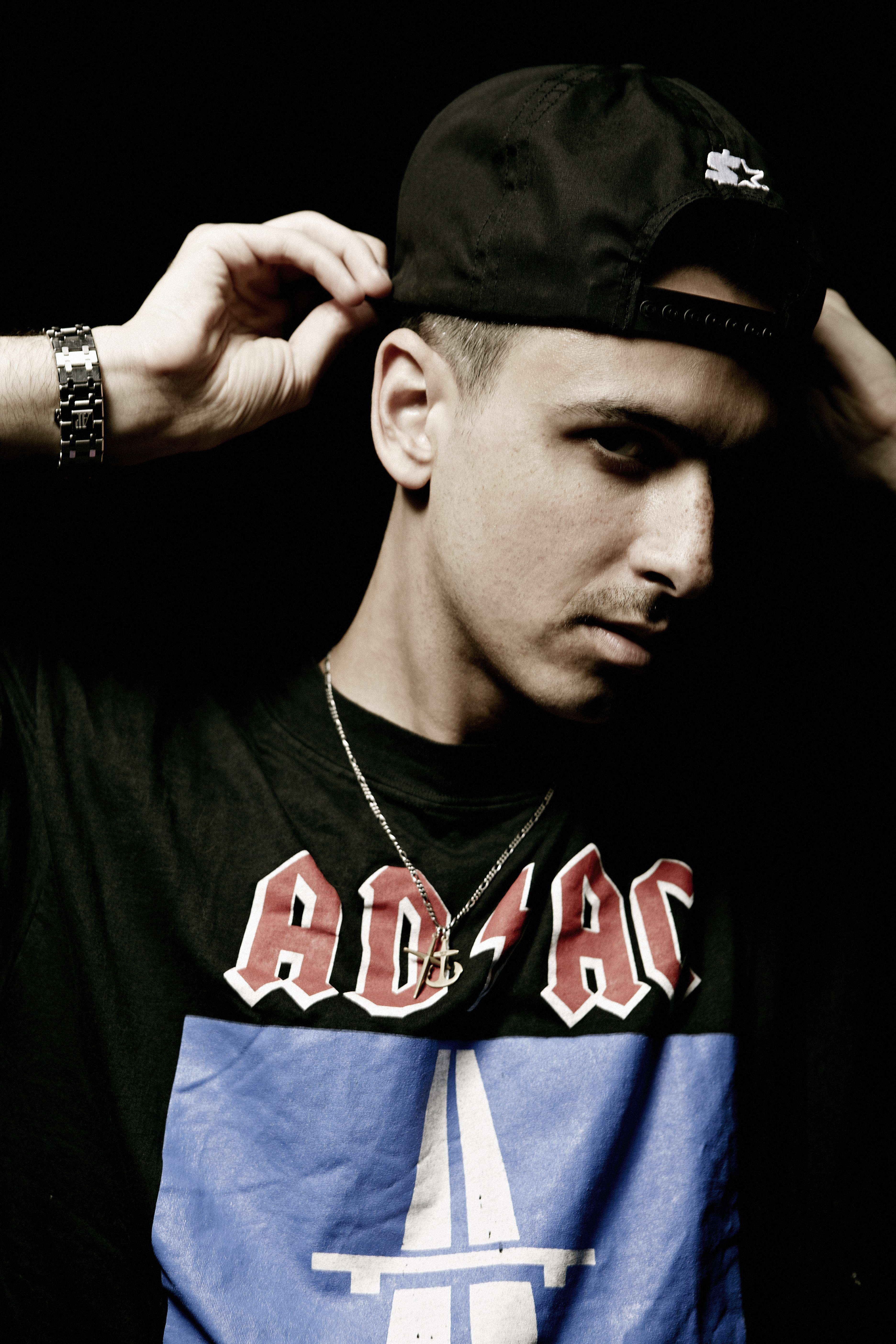 Boys Noize portrait